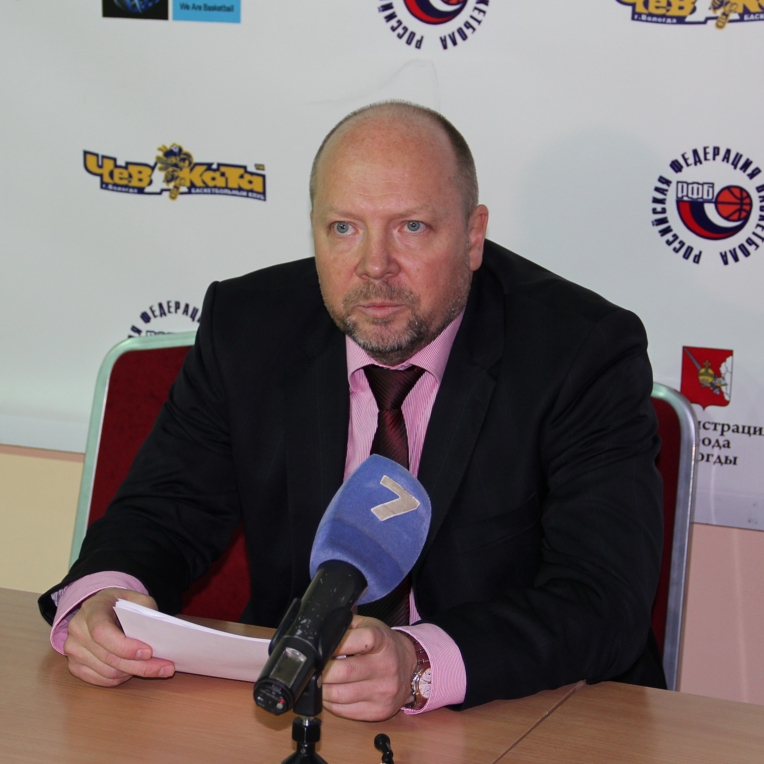 Russia, Vologda, Head coach of women's basketball club «WBC Spartak Moscow Region» Alexander Vasin